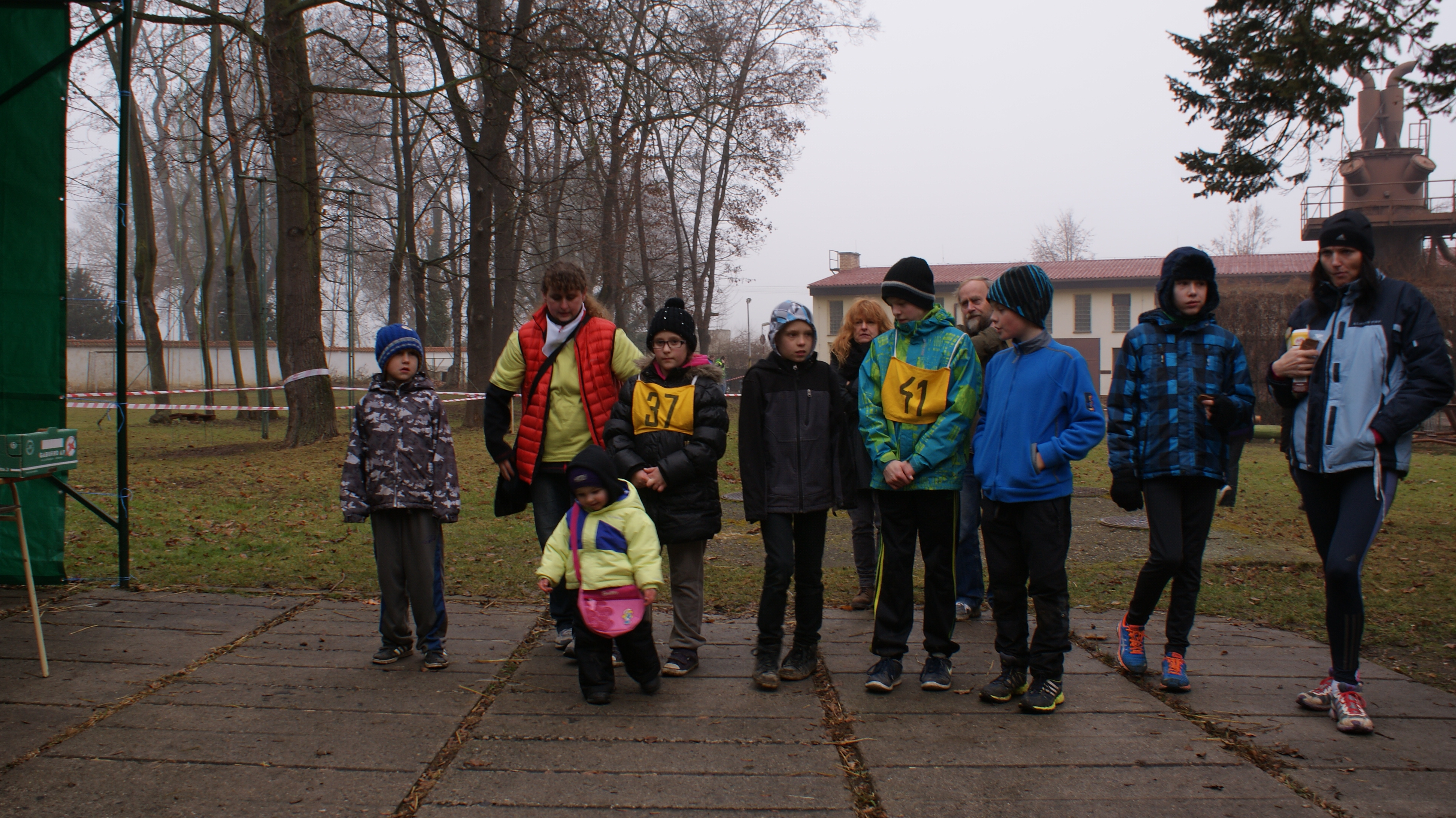 Liteň - running race